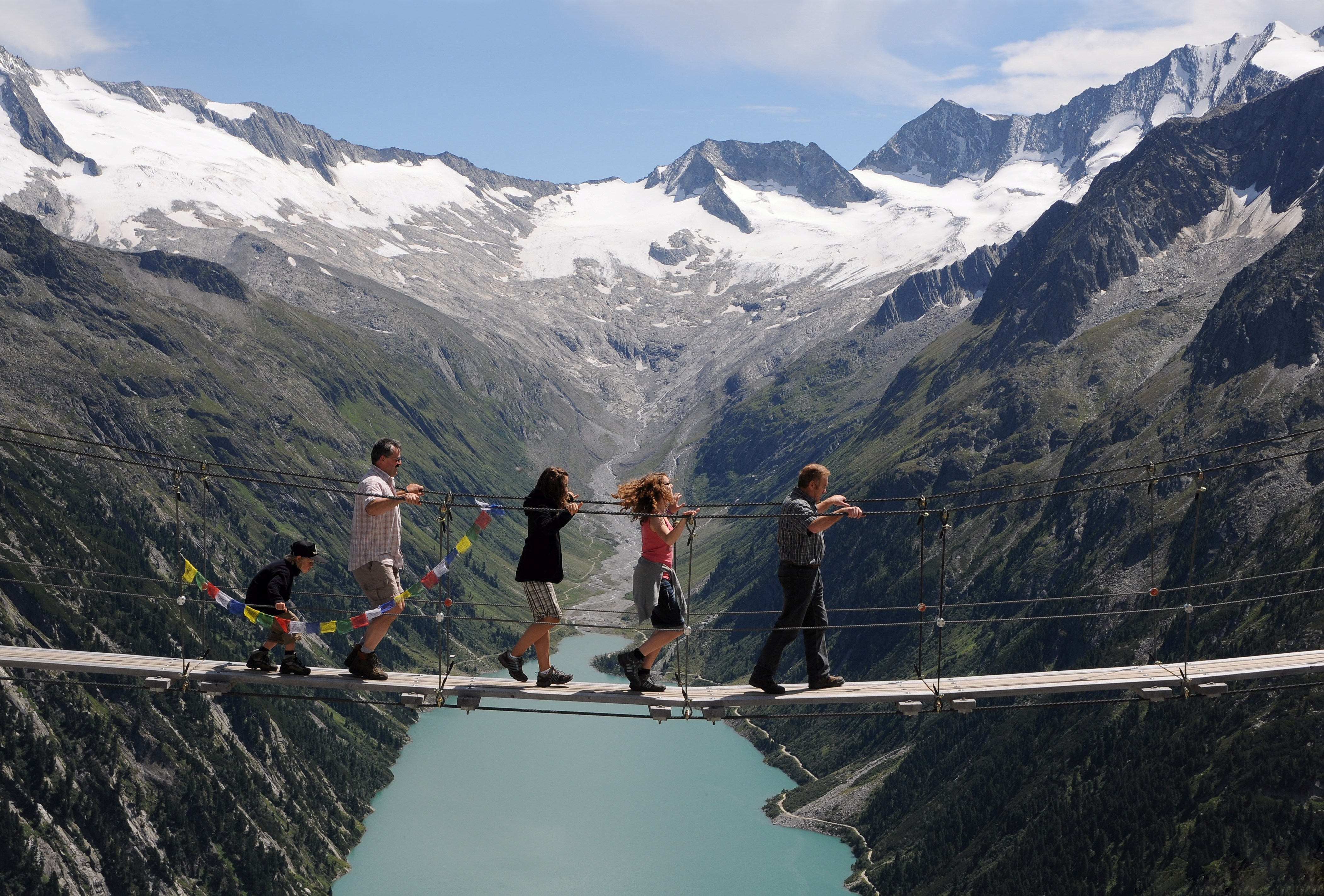 Drahtsteg pedestrian hanging bridge, in the Zillertal Alps, Austria.